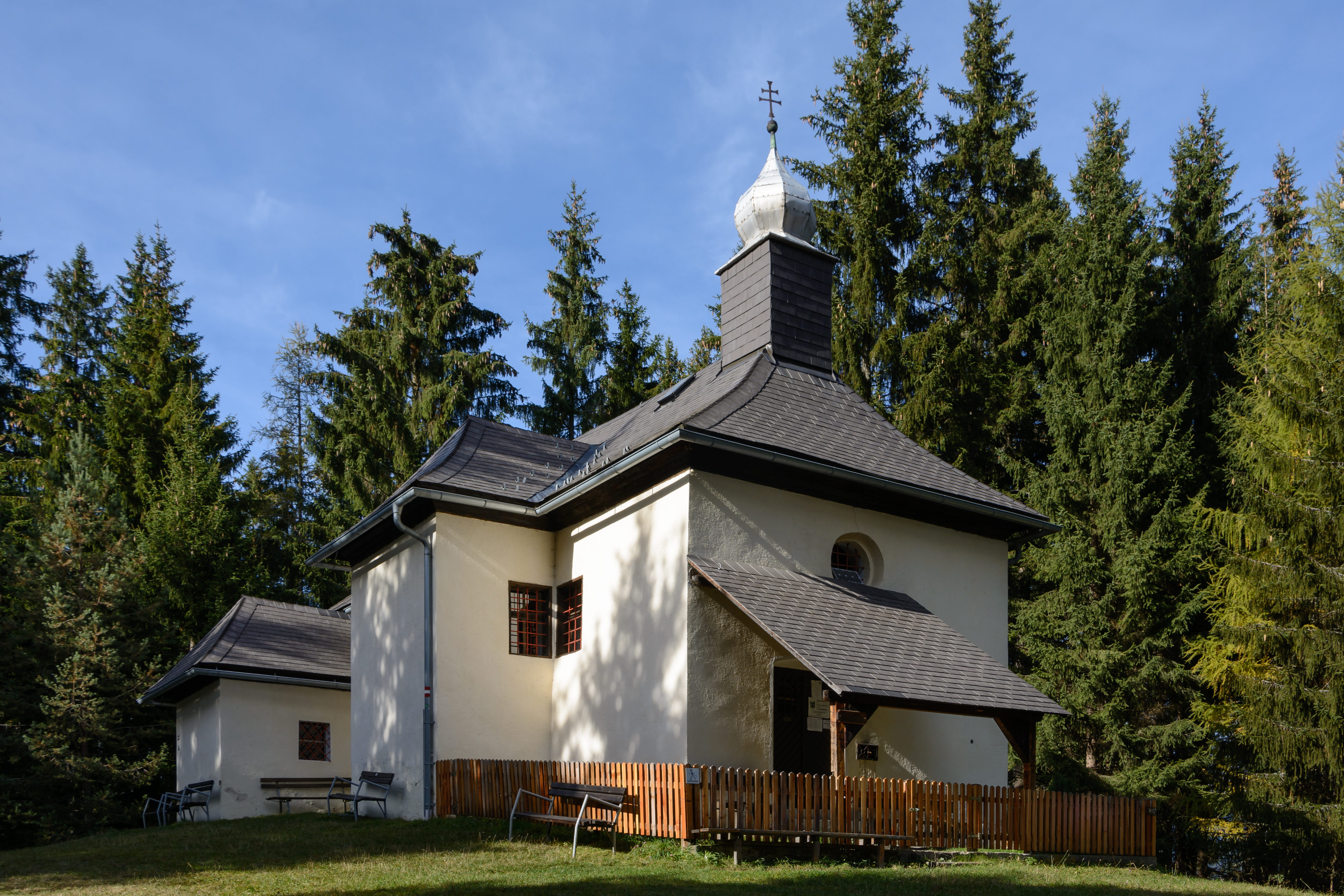 Calvary church on Tremmelberg near Seckau, Styria, Austria